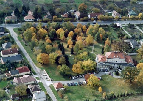 Öttevény, Hungary, aerialphotography